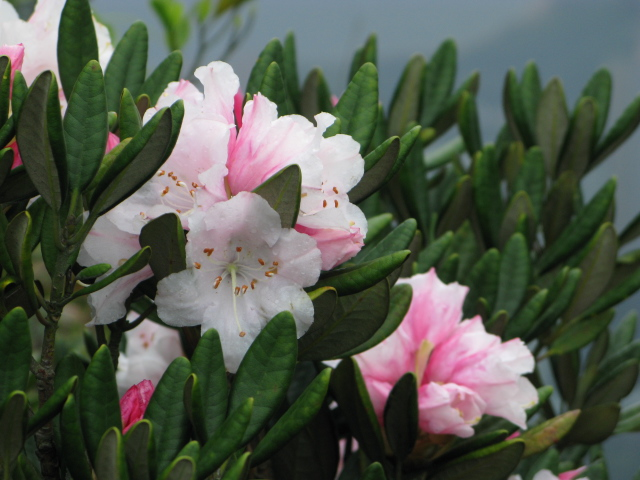 South China Rhododendron(Rhododendron simiarum Hance) flowers growing in the slopes of Ma On Shan, Hong Kong